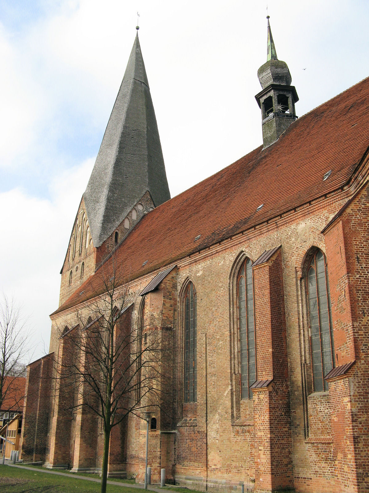 Church in Bützow, district Güstrow, Mecklenburg-Vorpommern, Germany